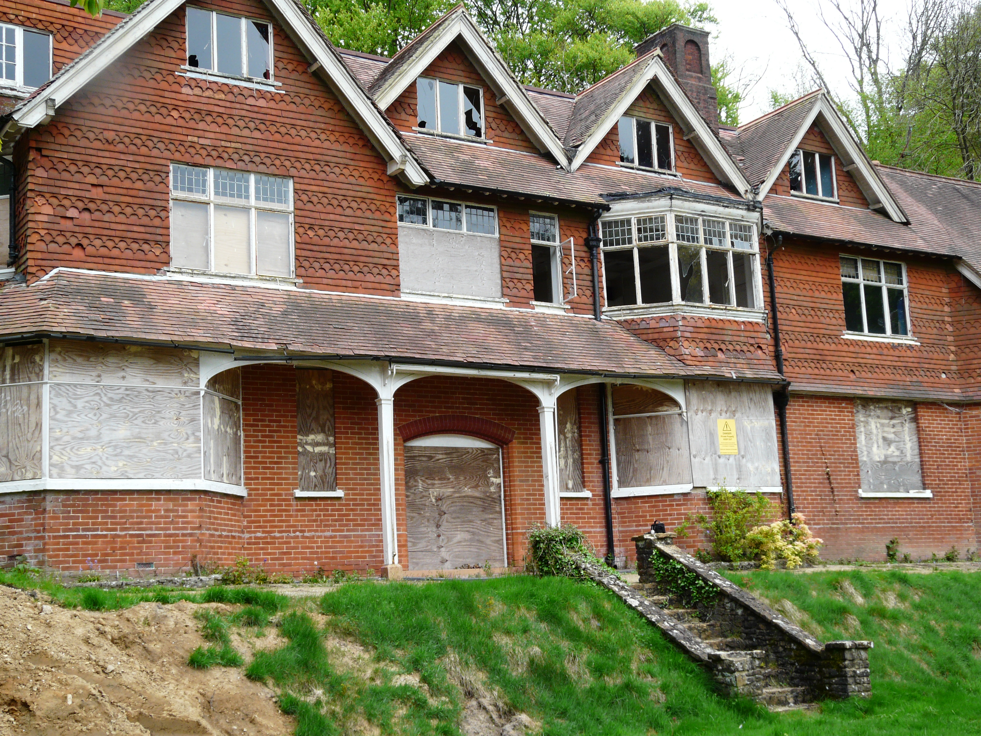 A photograph of the façade of Undershaw (2010)